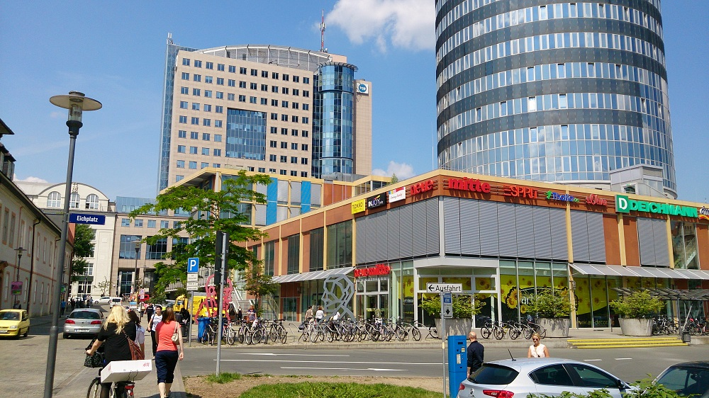 Am Eichplatz. Auf dem Bild sieht man die "Neue Mitte", dahinter ebenfalls ein Wolkenkratzer, das "b59".